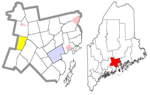 Map of the divisions of Waldo County, Maine, United States, with the town of Freedom highlighted in yellow. The city of Belfast is light blue; other towns are white; and pink areas are census-designated places within towns.